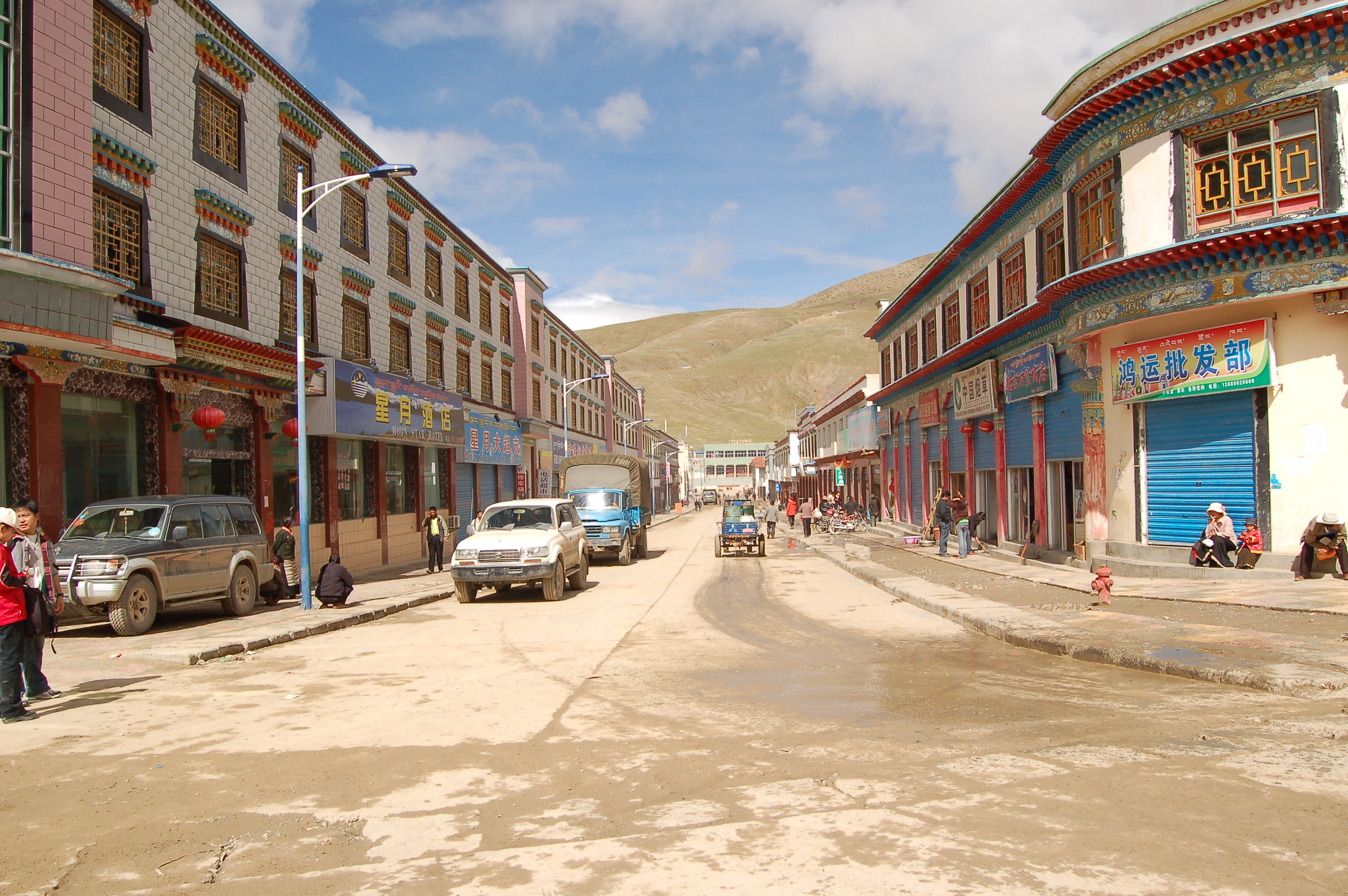 Chinese Shopping Centre in Saga (Shigatse District) Tibet